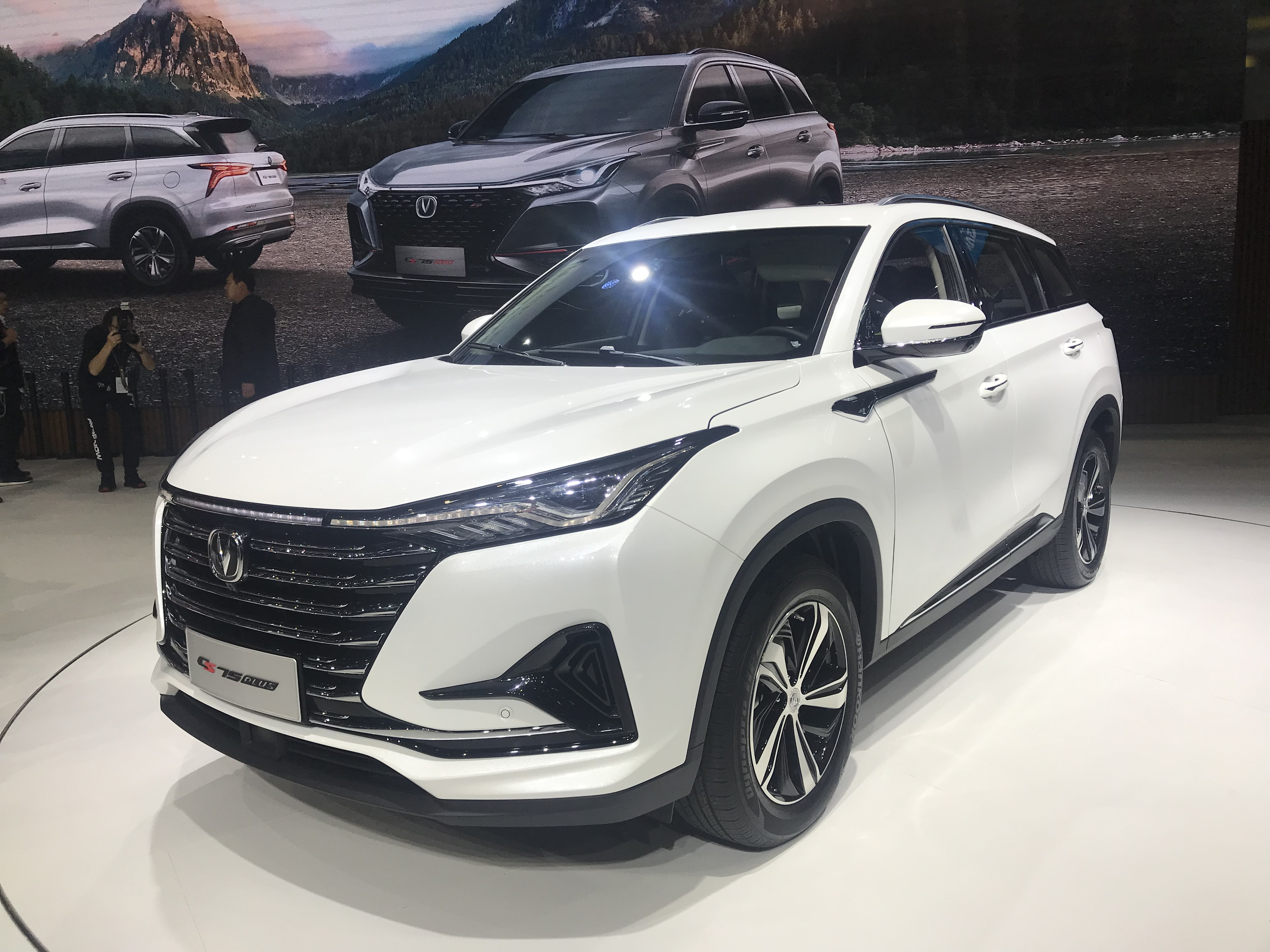 Changan CS75 Plus front